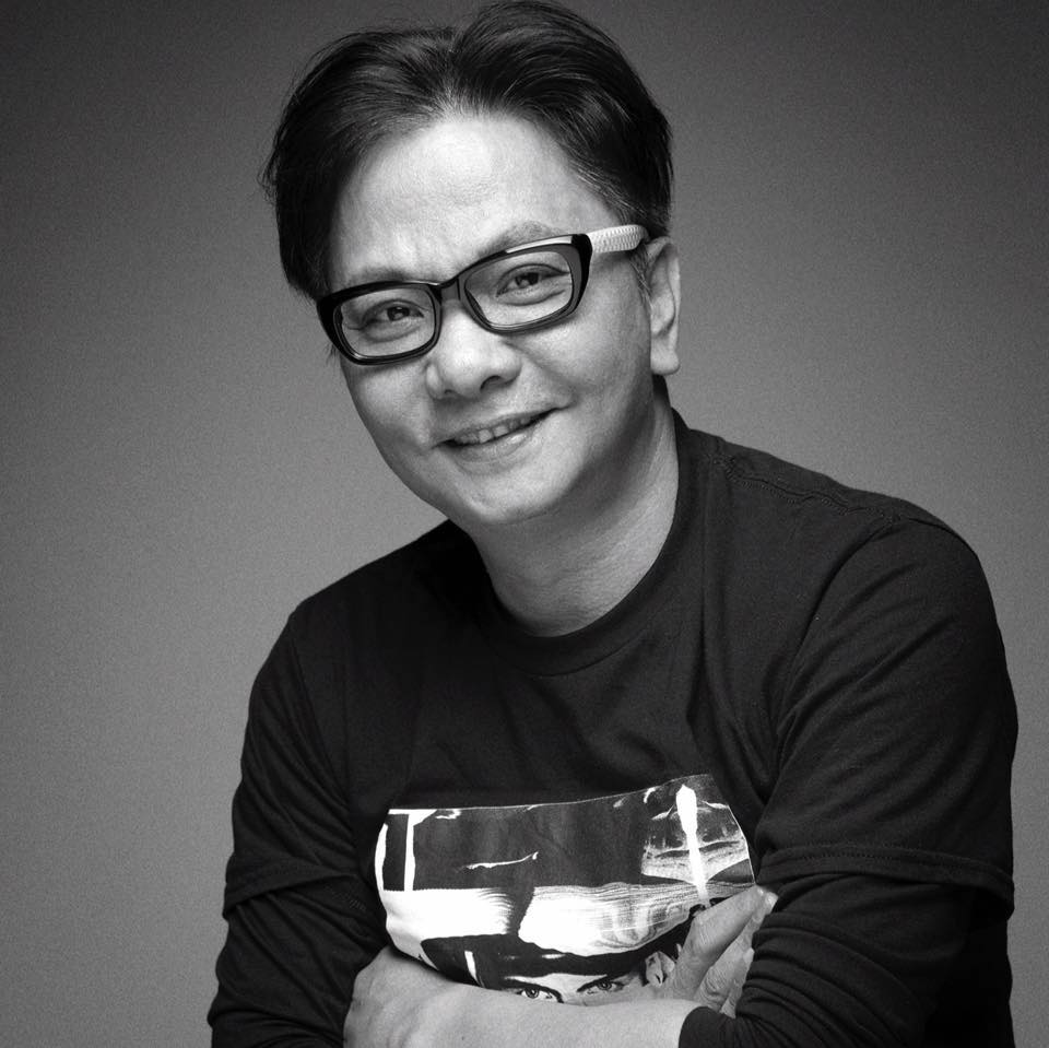 Joshua Lin-abook studio